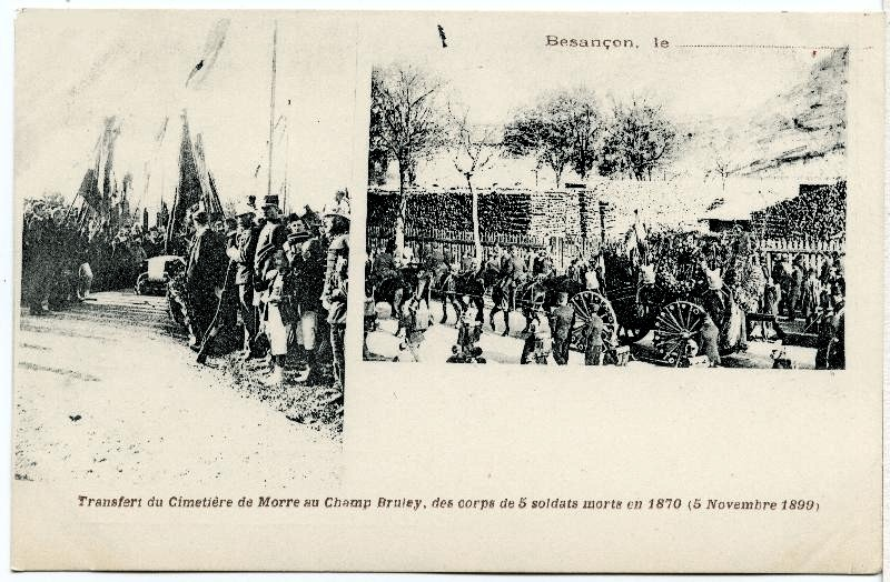 Postcard taked in 1899, in commemoration of the transfer of soldiers killed during the french-deutch war of 1870 between the cemeteries of Morre and Besançon-Champs Bruley. From public archives of the city.